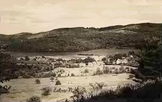 Panorama, Eaton, NH; from a 1909 postcard.